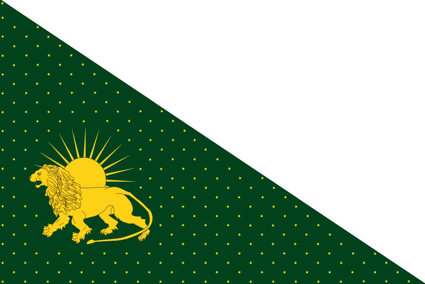 Reconstructed design of the Mughal alam, or banner. Sketch is based on historical image File:One of six figures from the Mughal emperor's ceremonial procession on the occasion of the Id..jpg from c. 1840, from 1843, and from 1648.